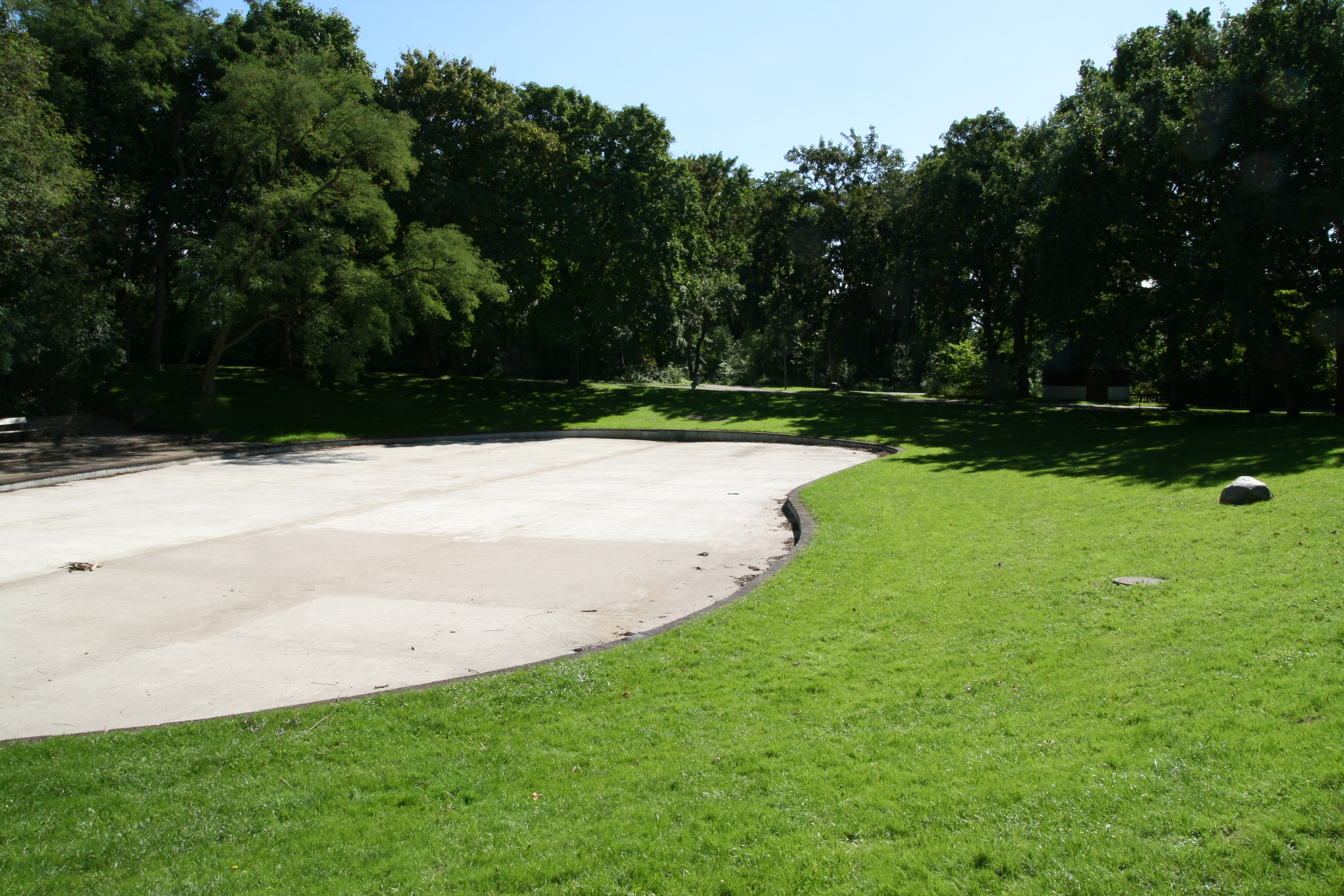 A south-looking view of the since 2006 dried out pond in the southmost part of Sankt Jörgens park in Lund, Sweden.